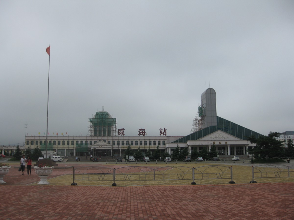 Weihai Railway Station